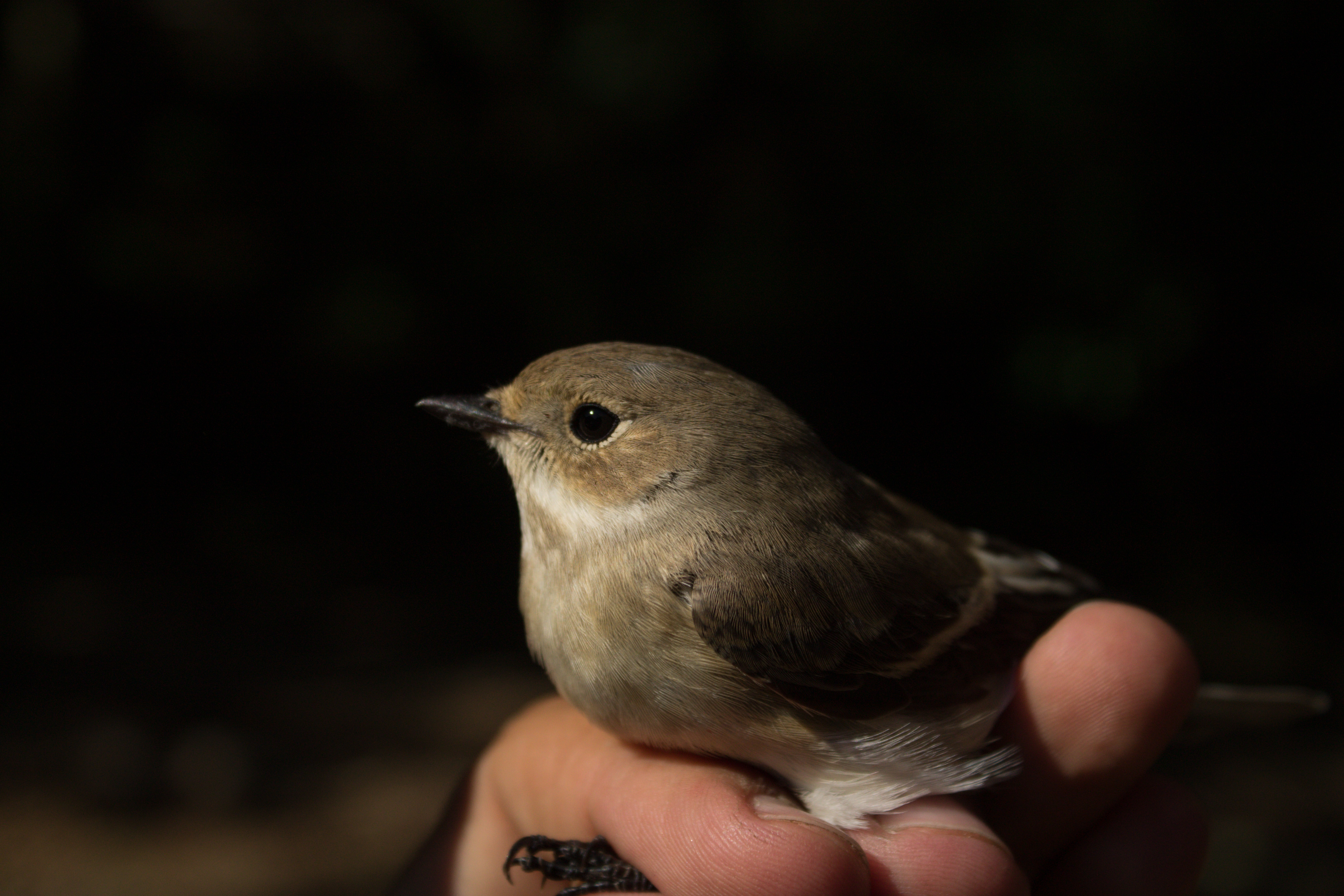 The European pied flycatcher (Ficedula hypoleuca) was caught in a bird banding session and, after banding the bird and taking some biometric measurements it was released. The session occurred at Parque Biológico de Gaia.